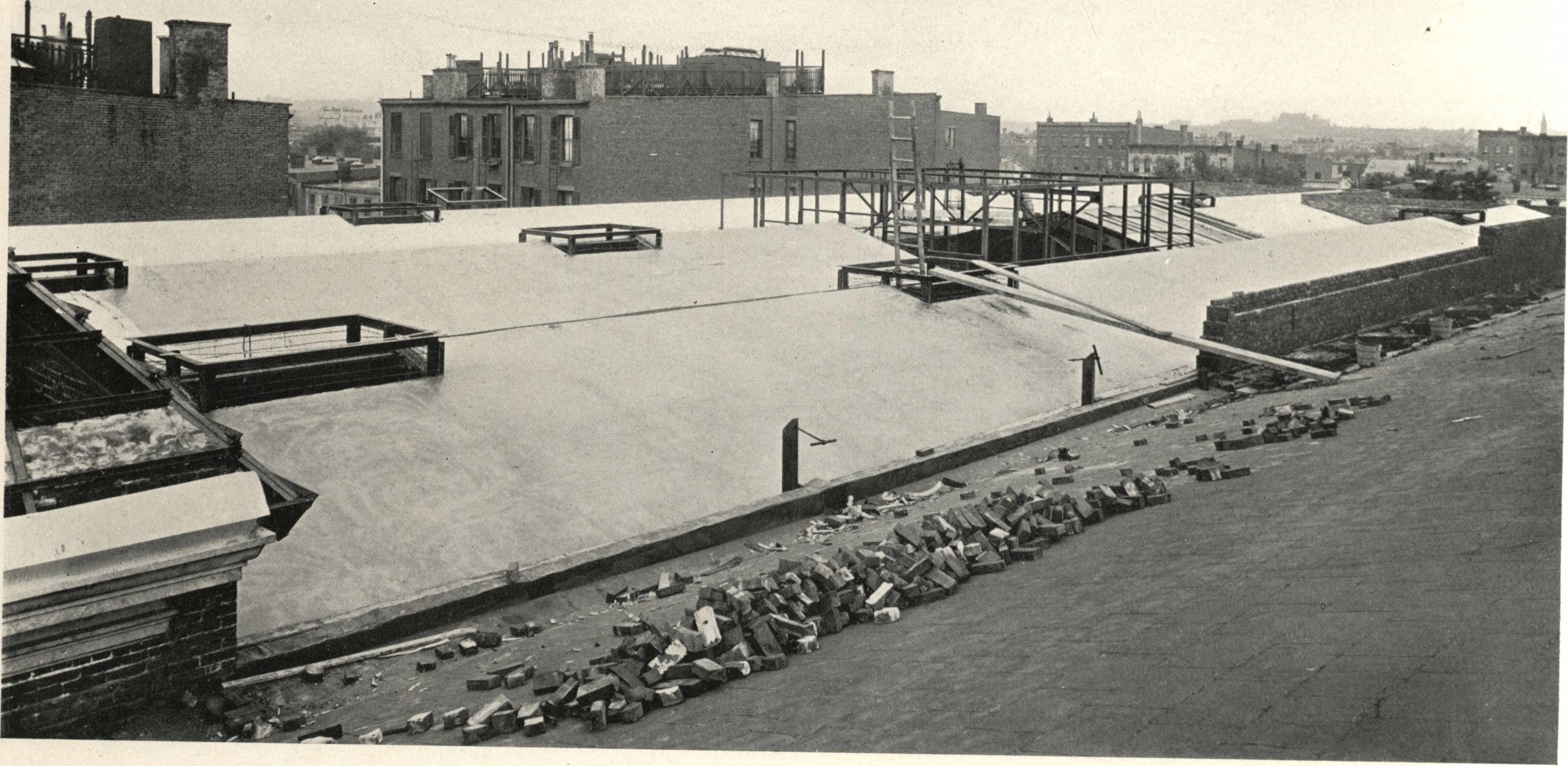 Title: Catalogue of useful information and tables relative to iron, sheet and other products manufactured by Milliken Brothers, arranged for the use of engineers, architects and builders Year: 1901 (1900s) Authors: Milliken Brothers Subjects: structural steel -- catalogs construction equipment -- catalogs Division 05 Division 41 steel column schedule steel beam schedule steel joist schedule structural steel framing structural steel for buildings steel joist framing metal fabrications metal stairs decorative metal cranes and hoists derricks Publisher: Milliken Brothers Text Appearing Before Image: MILLIKEN PATENT ROOF CONSTRUCTION, SHOWING W^IKE WORK AND WOODEN CENTERS BEFORE CONCRETE WAS IN PLACE. 107 Anglo-Swiss Condensed Milk Co.s Building, Brooklyn, N. Y. Text Appearing After Image: MILLIKEN PATENT ROOF CONSTRUCTION AFTER CONCRETE IS IN PLACE. 108 MILLIKEN PATENT CONCRETE SLAB FLOORING AND PARTITION, Owing to the large demand for a floor that would withstand fire and at the same time be light anddurable, we have succeeded in constructing a slab composed of steel rods and woven wire, which are embeddedin concrete, composed of cement, sand ar.d broken stone or cinder.This slab, as used for floor construction, is clearly shown on Plate No. 42.^The cut to the left shows the floor with wooden sleepers embedded in theconcrete, to which are nailed the wood flooring boards which are used as awearing surface. -The cut to the right represents the floor without thesleepers and simply finished with a cement surface. This same class ofiJoor is shown in Plate No. 37. In certain locations where it is easy to get cement, sand and brokenstone, we make a practice of shipping the woven wire and steel rods andarranging for the concrete to be supplied at the building. In other casesw